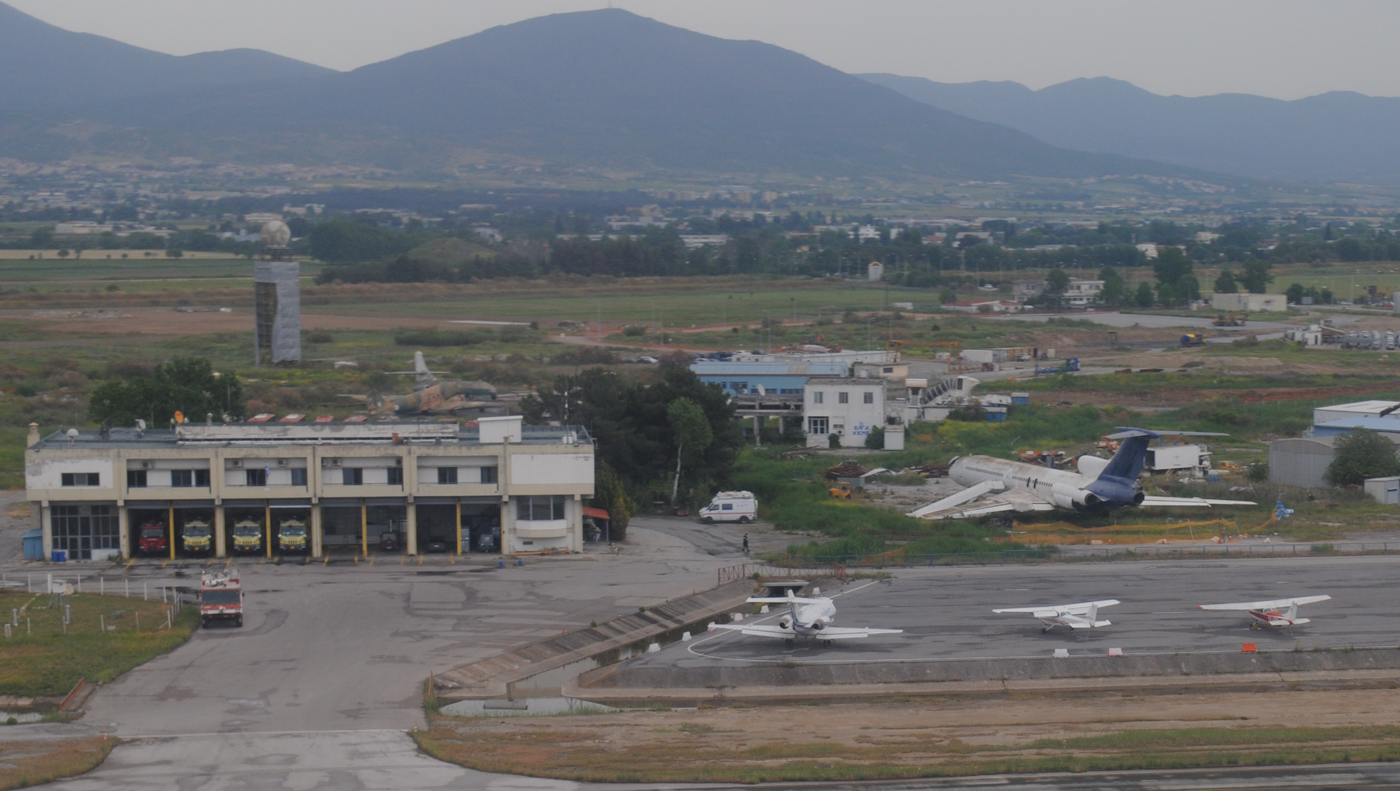 Tupolev Tu-154 HA-LCR next to the fire station at Thessaloniki Airport "Makedonia". See Malév Flight 262 for the story of this aircraft's belly-landing at the airport, on 4 July 2000. It is now used for fire training.